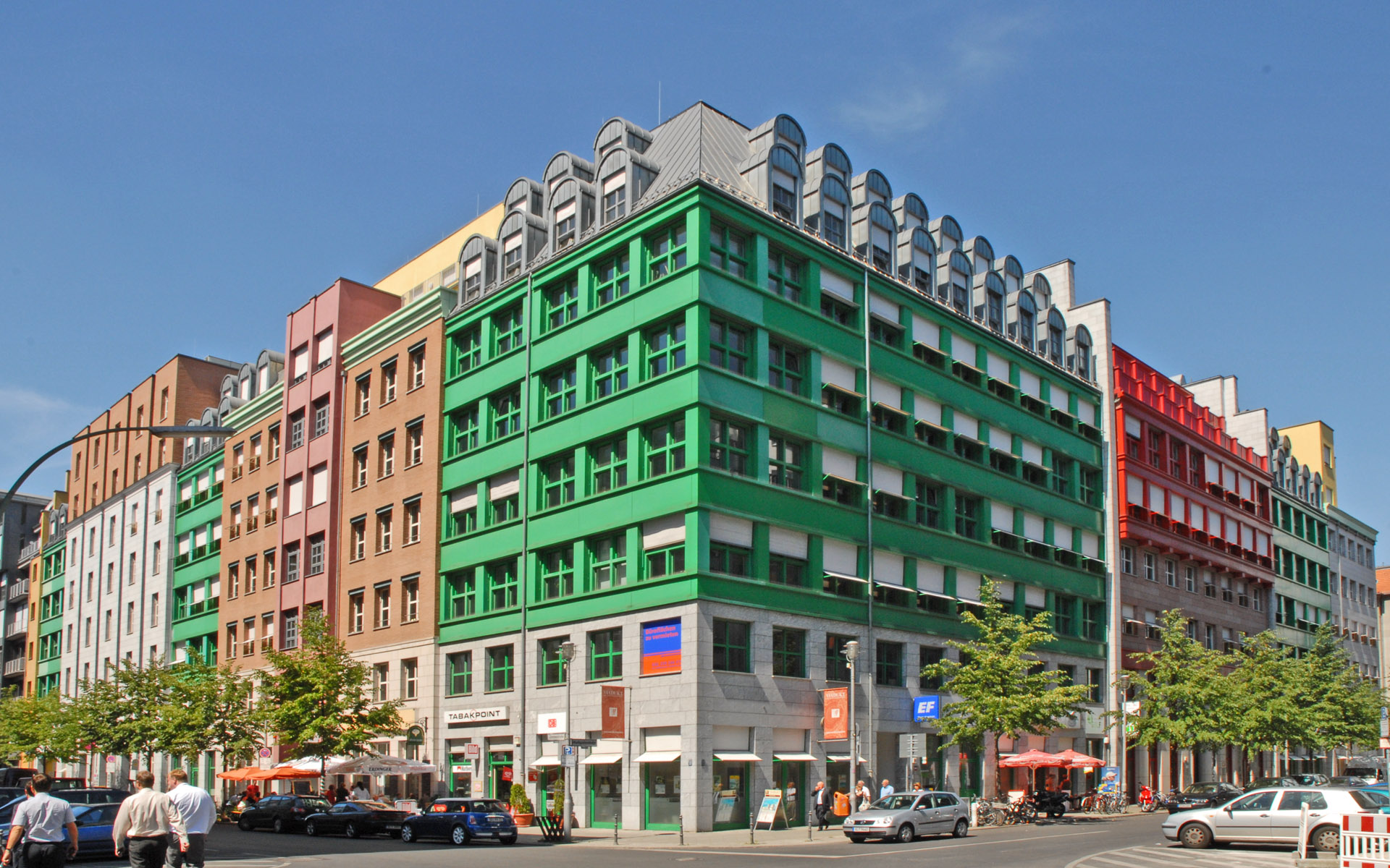 Quartier Schützenstrasse in Berlin, Germany (1994–98), by Aldo Rossi